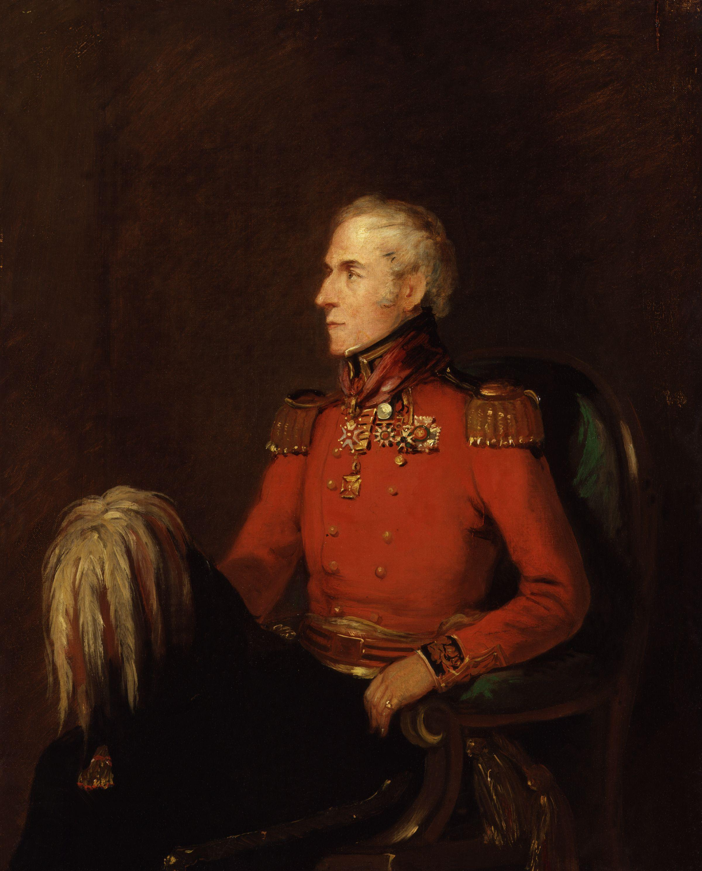 All images in this batch have been confirmed as author died before 1939 according to the official death date listed by the NPG.